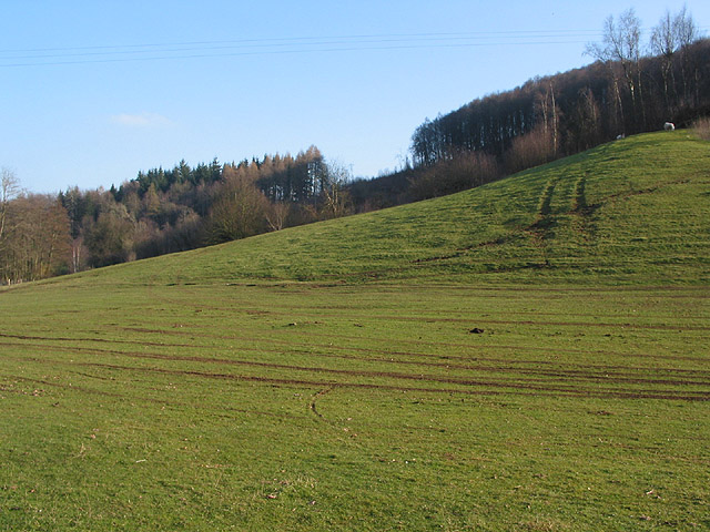 Slopes of Welshbury Hill Welshbury Hill-fort lies west of Flaxley in Welshbury Woods. It lies on land belonging to the Forestry Commission.